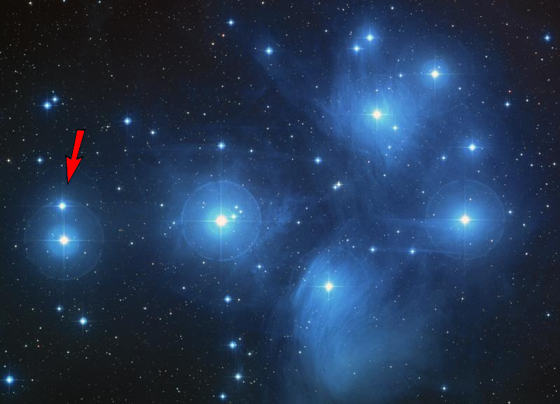 Pleiades Star Cluster